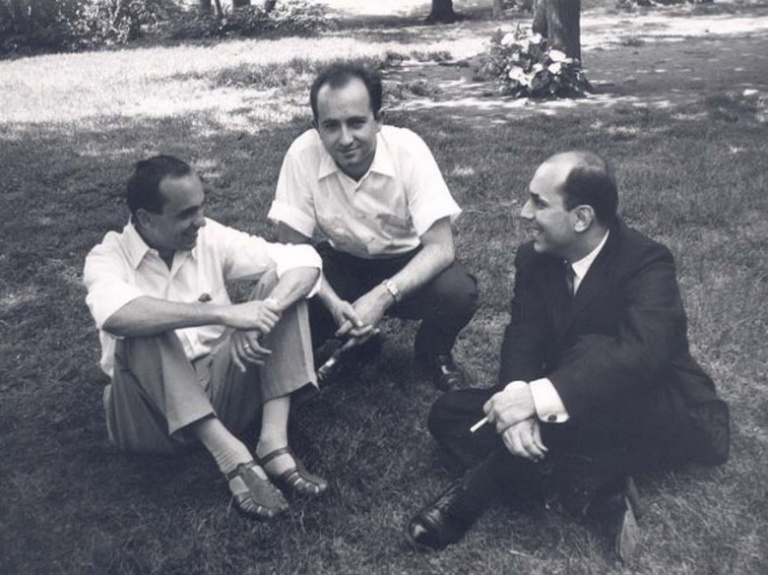 Poetry